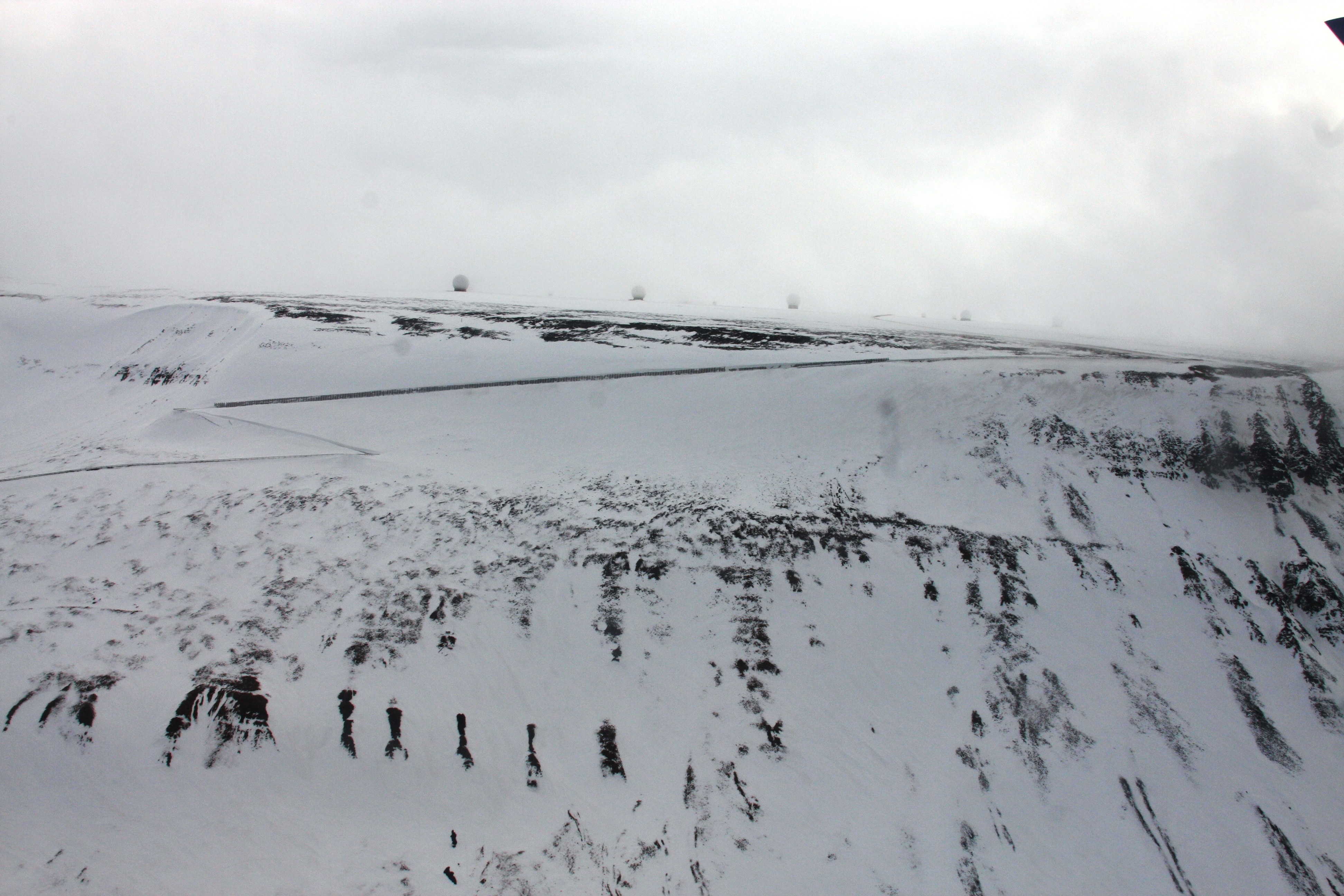 Plataaberget with SvalSat, Longyearbyen